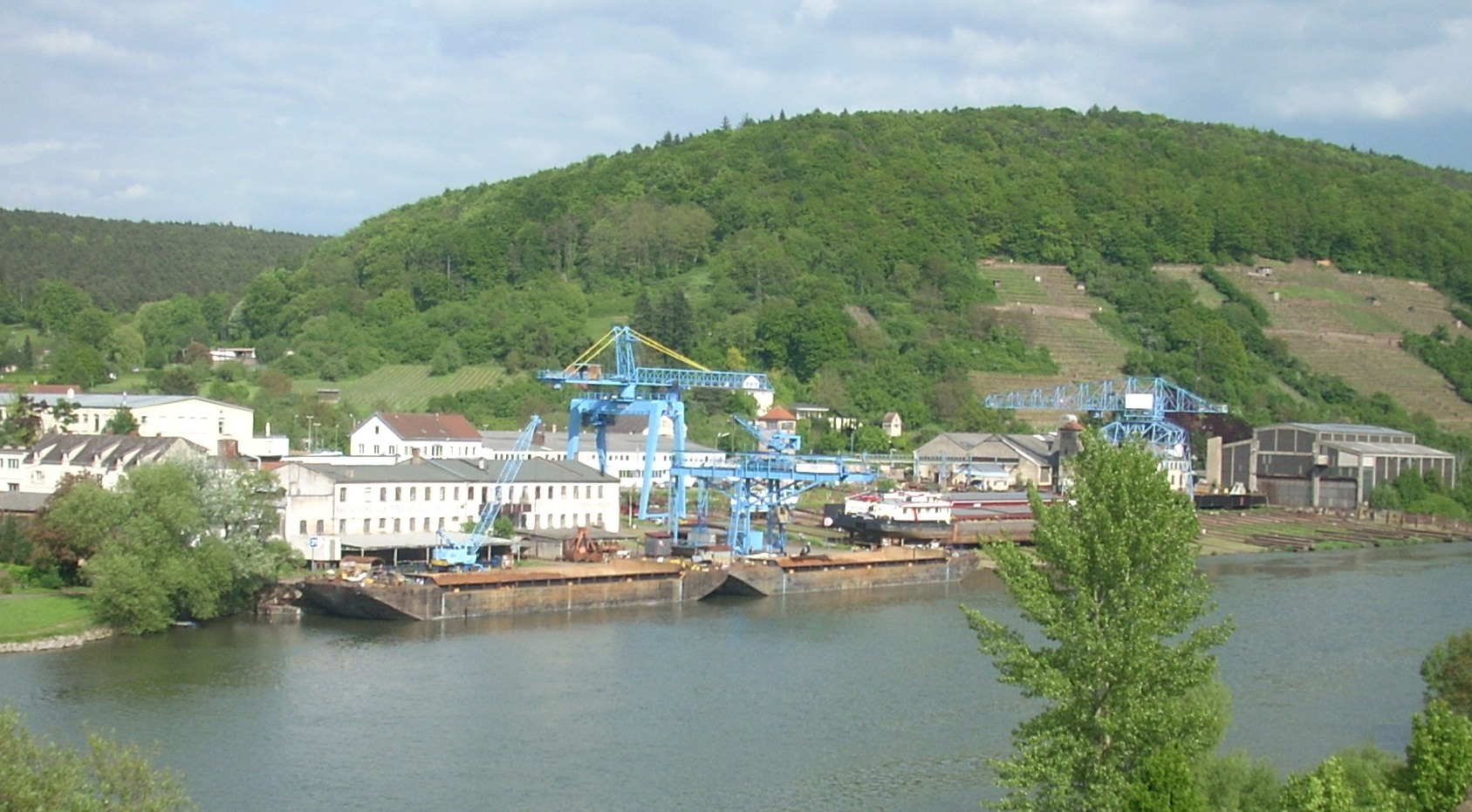 Erlenbach am Main